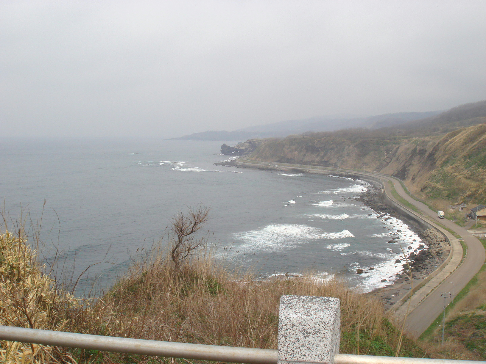 Michinoeki(Roadside Station) Route 229 Genwadai (Otobe, Hokkaidō)